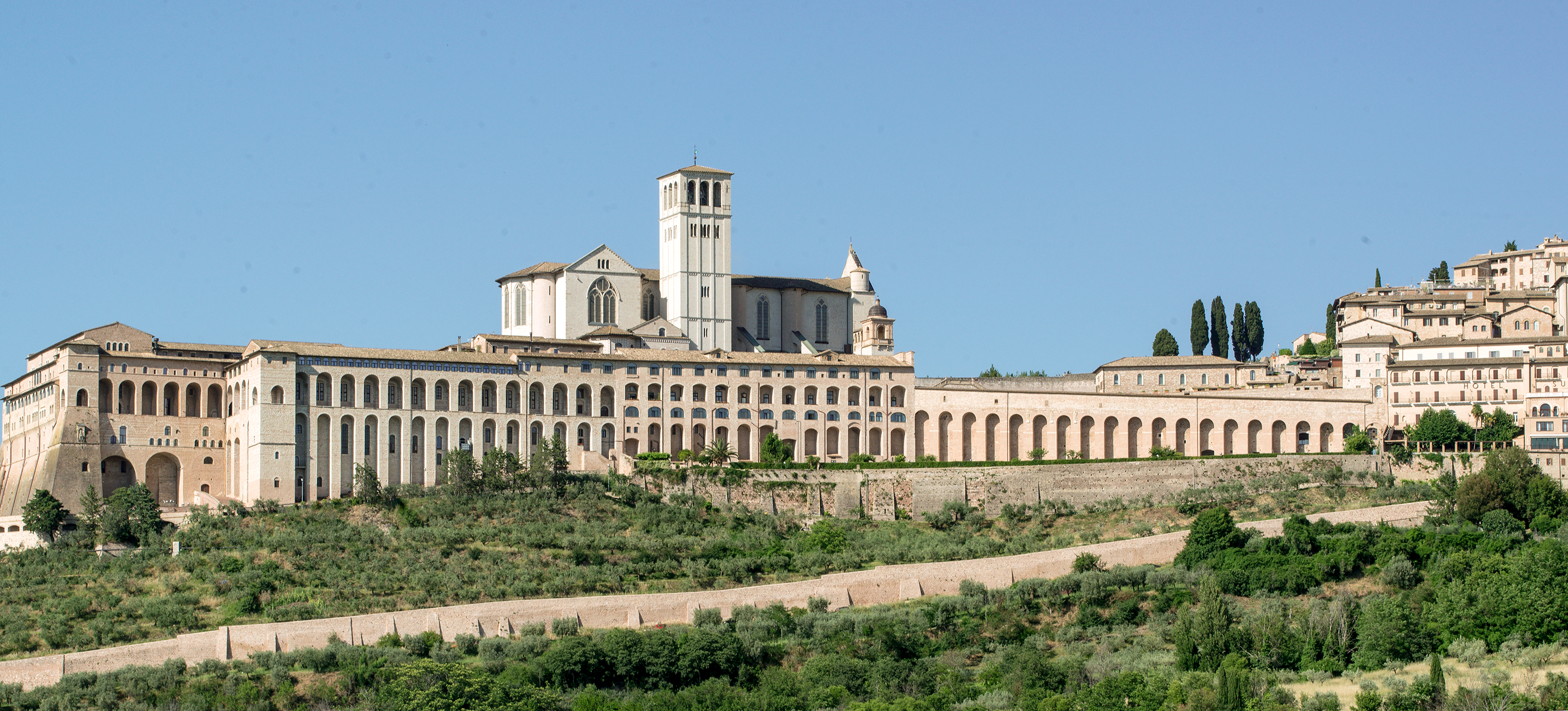 The basilica in daytime